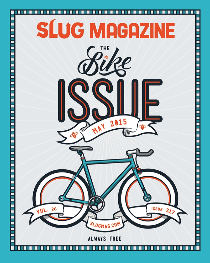 SLUG Magazine's annual bike issue cover (2015). Design By Christian Broadbent